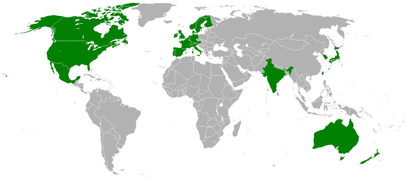 Countries connected to the Xbox Live service.